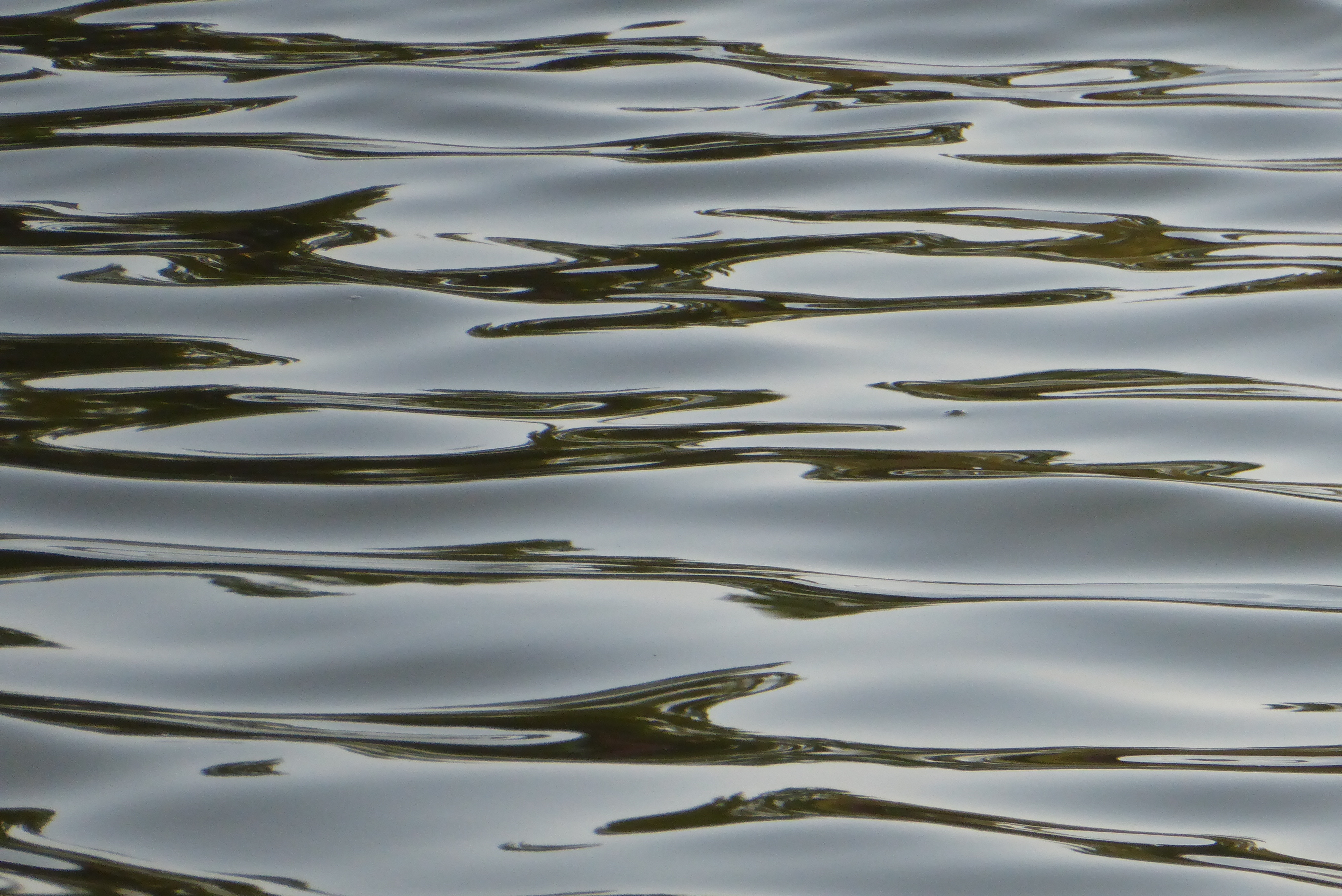 Waves in the water of Ramat Gan, National Park, Ramat Gan